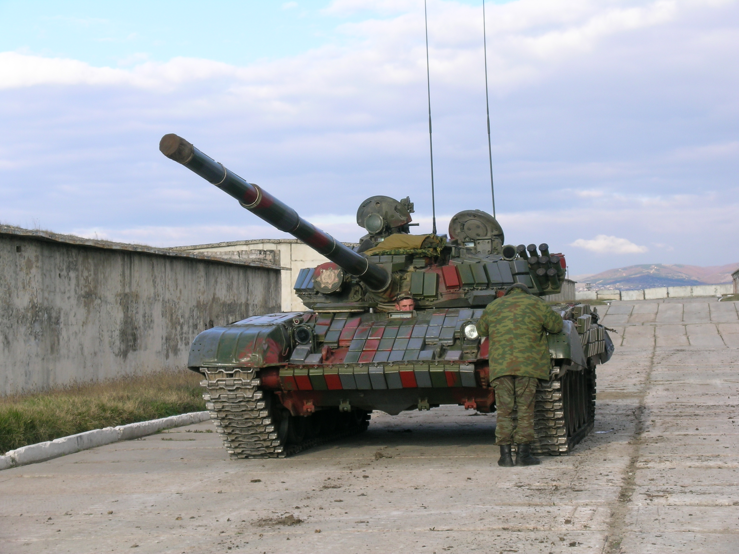 Georgian T-72. One of the T-72 tanks dedicated to the next cycle of GTEP training prepares for a test drive at Vaziani.